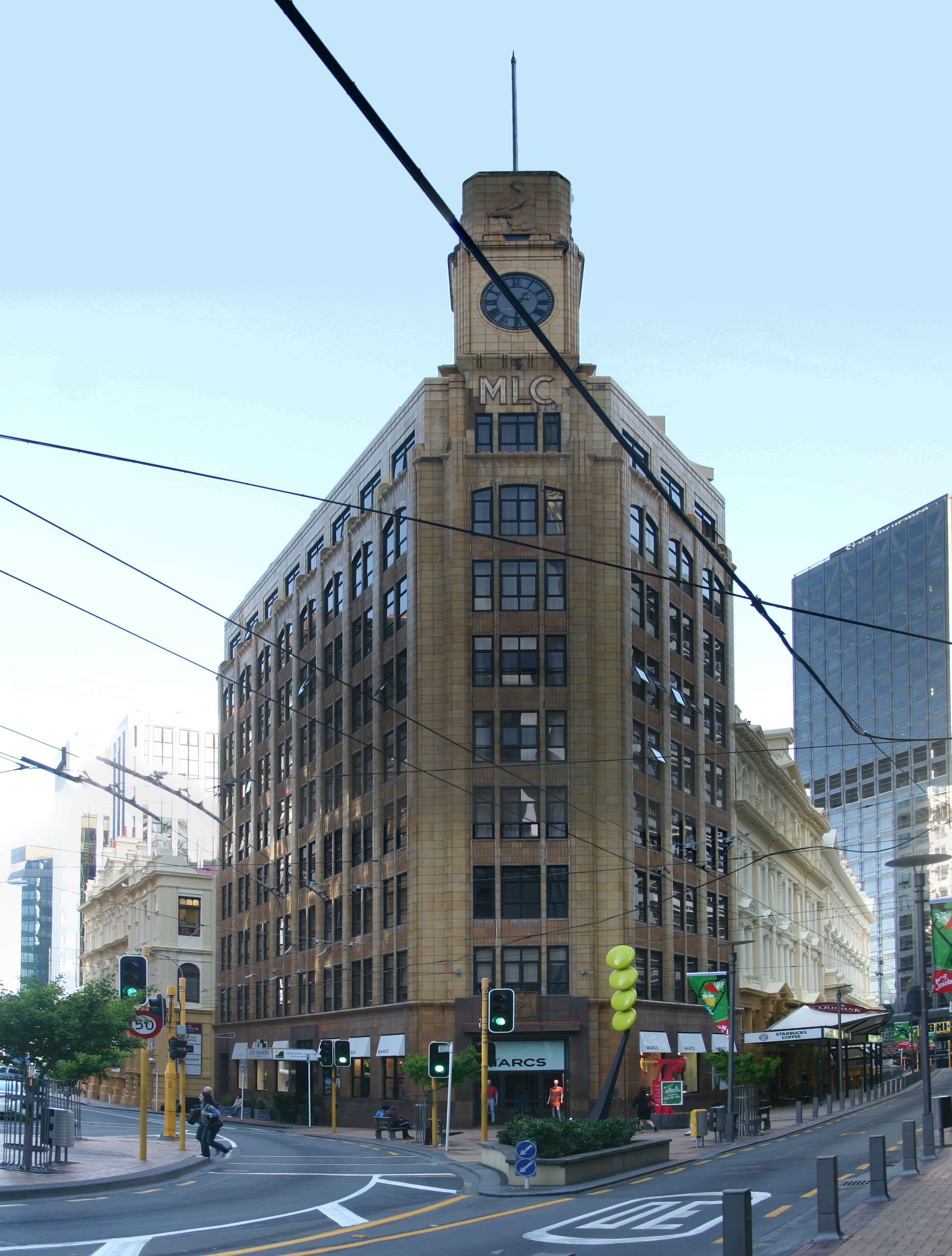 MLC Building, Lambton Quay, Wellington, New Zealand. Panorama of three images stitched together with Hugin using a Cylindrical projection.